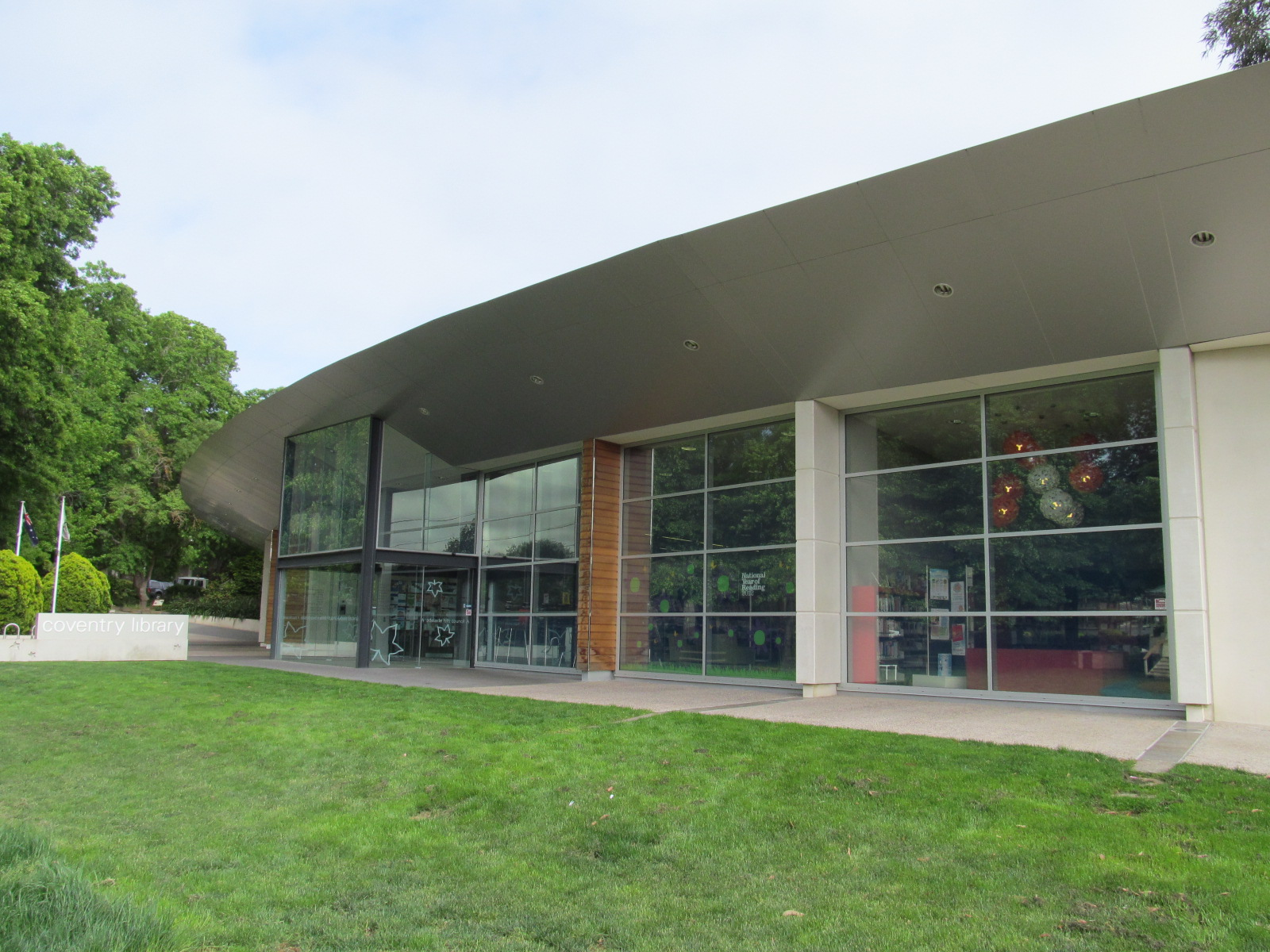 Library at the Adelaide Hills Council offices, Stirling, South Australia